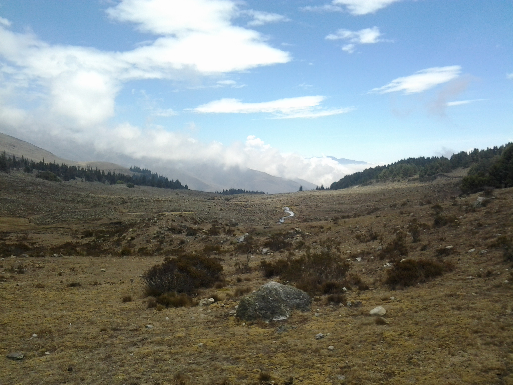 waste land